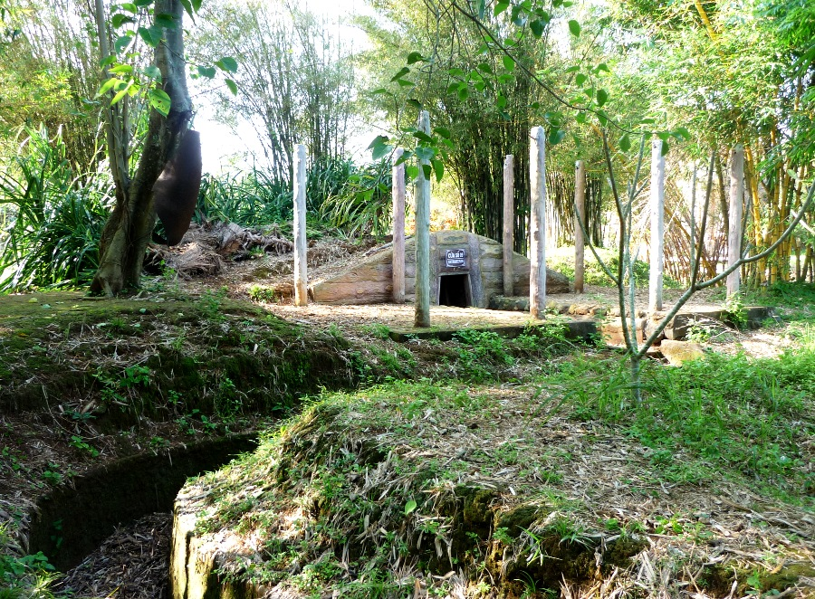 Using bomb fragment as a smart to alert everybody when necessary.